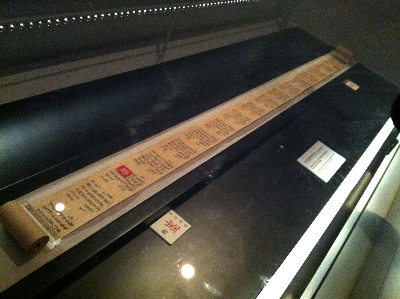 A replica exhibit of Dharani sutra in the National Museum of Korea.